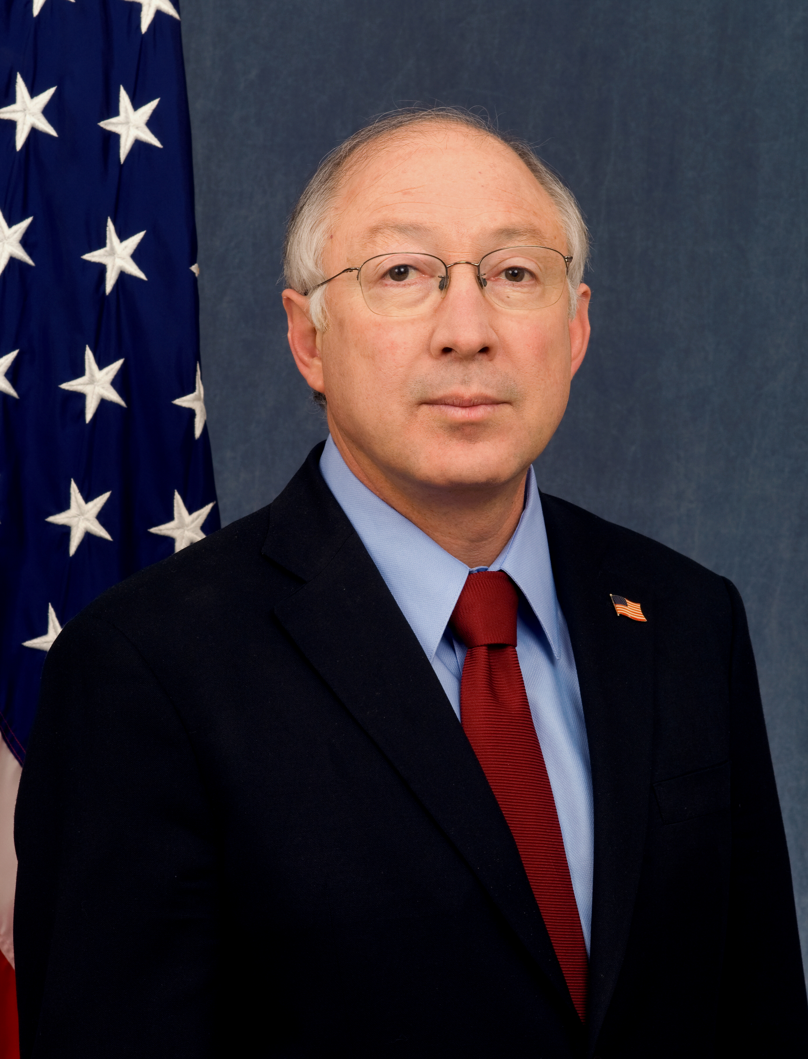 Official portrait of Secretary of the Interior Ken Salazar